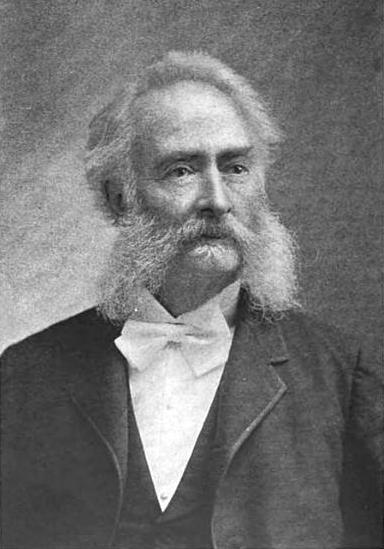 Clinton Levi Merriam, New York Congressman